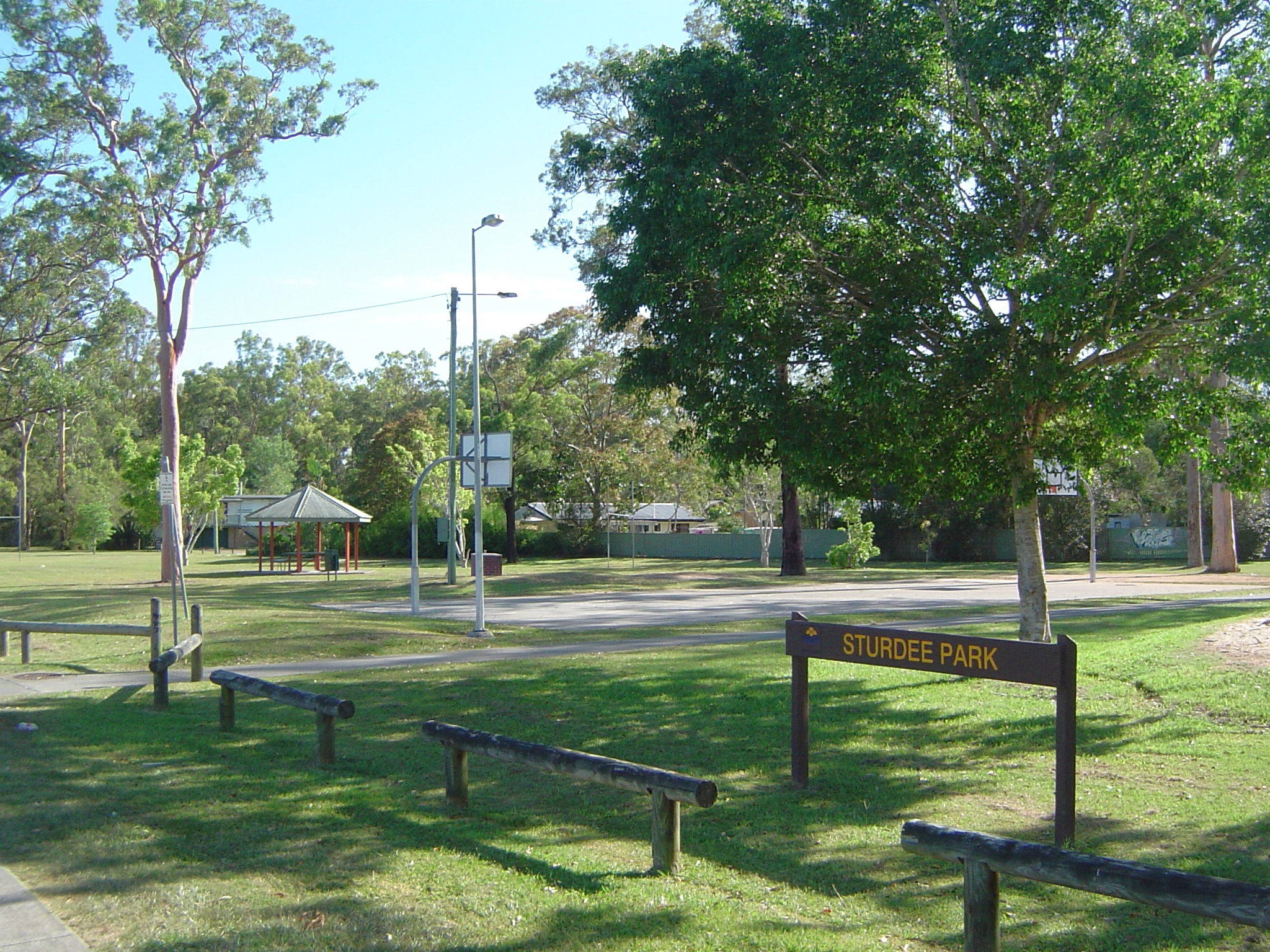 Photo of Sturdee Park in Loganlea, City of Logan, Queensland, Australia.